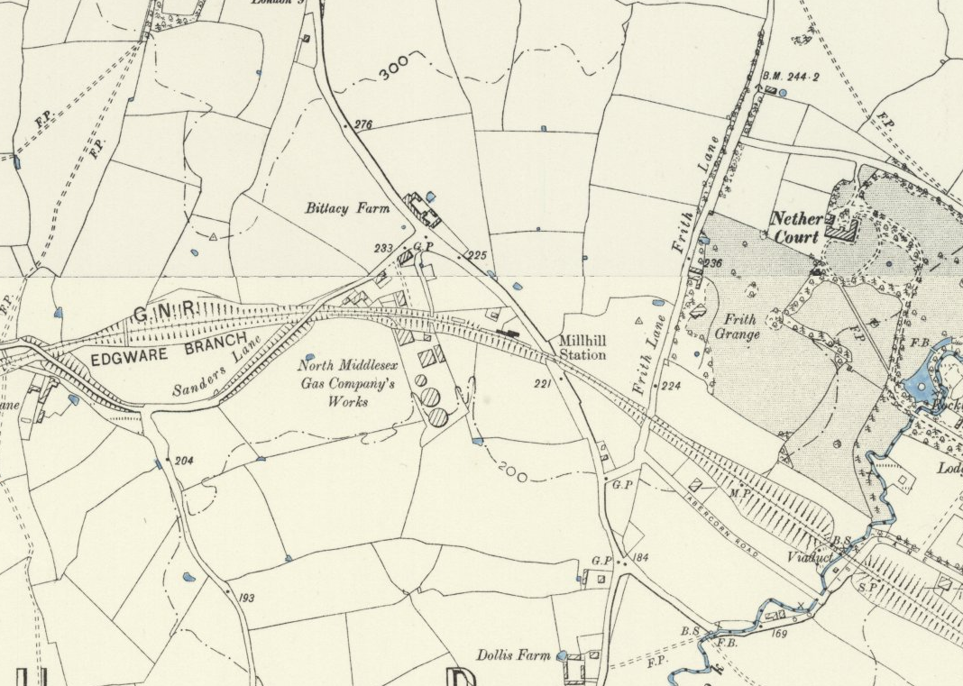 Mill Hill East station in north London on an 1897 Ordnance Survey map.